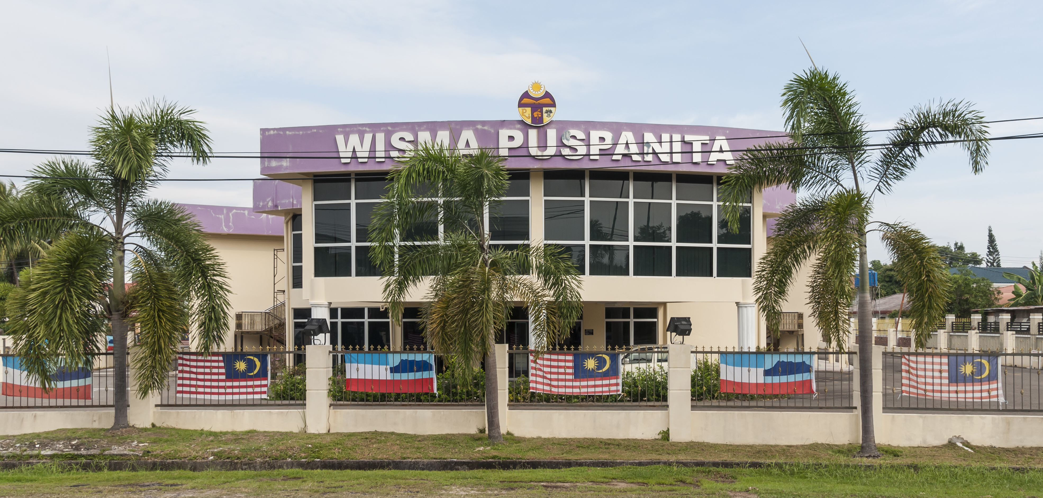 Kota Kinabalu, Sabah: Wisma Puspanita in Tanjung Aru, corner Jalan Murni/Jalan Murai